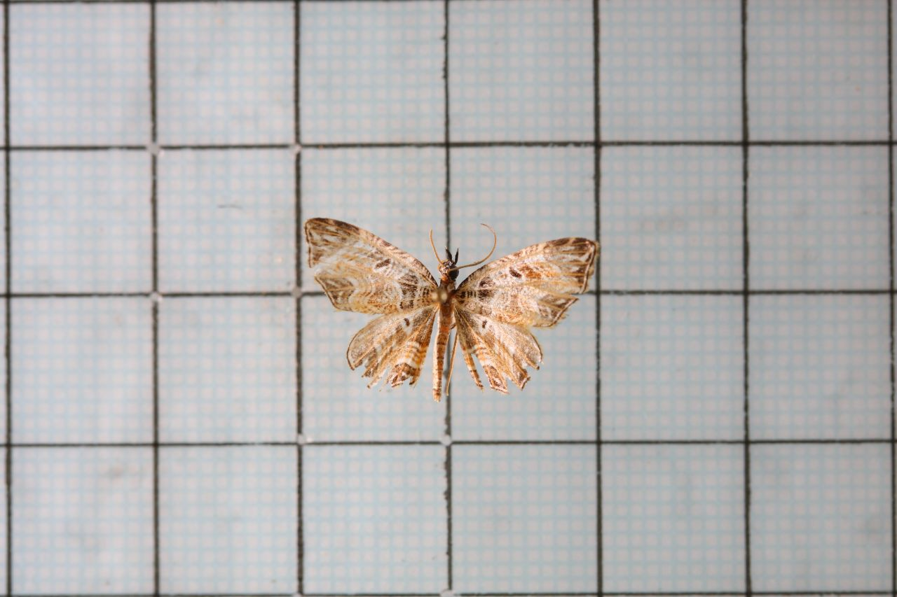 Lobogonodes taiwana (Wileman & South, 1917) 台灣角尺蛾 鞍1:P.59,Pl.14-13 TaiBENT Lobogonodes taiwanus (Wileman & South, 1917)